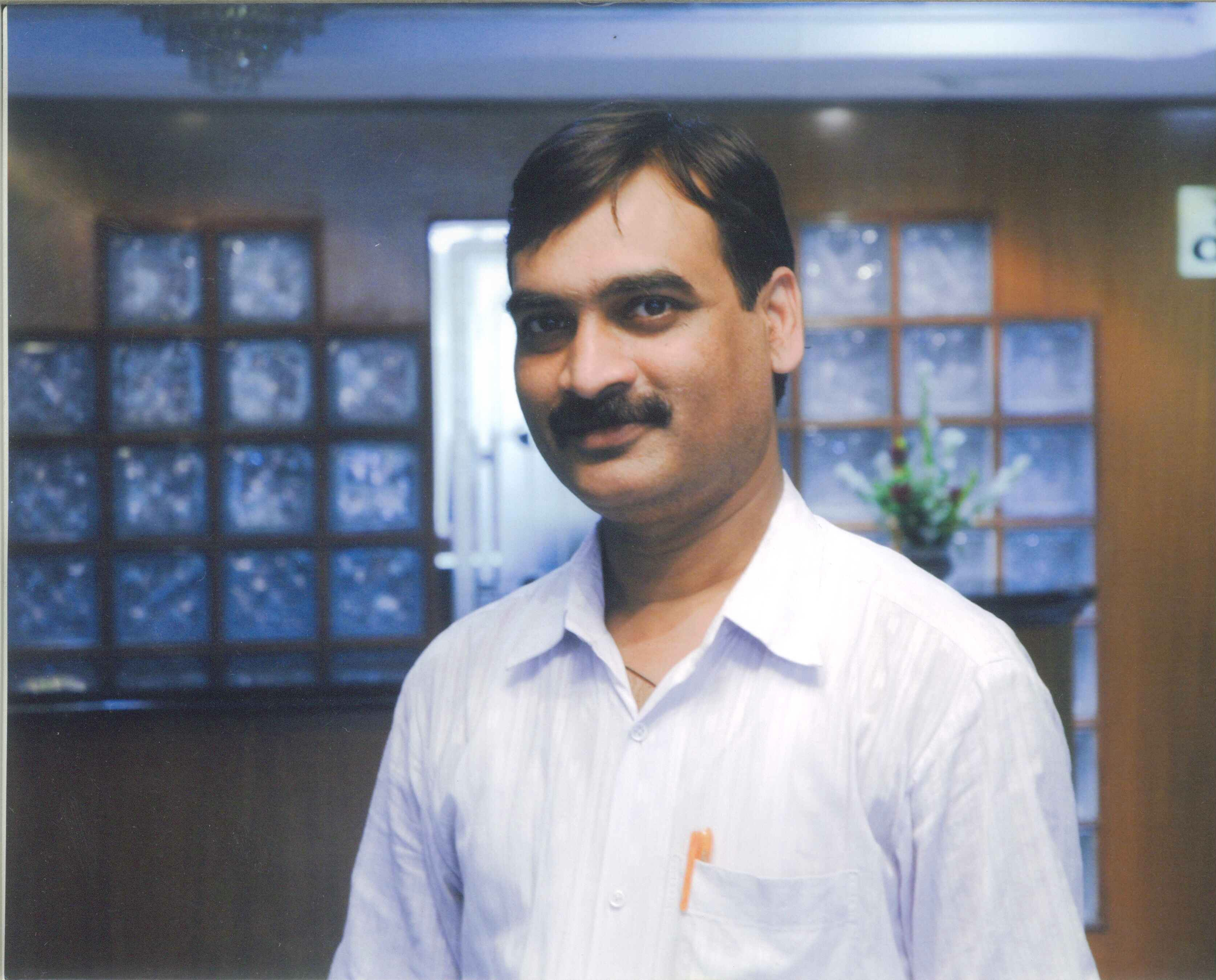 Indian Novelist Ravindra Prabhat in his Lucknow offece in 14 December 2008